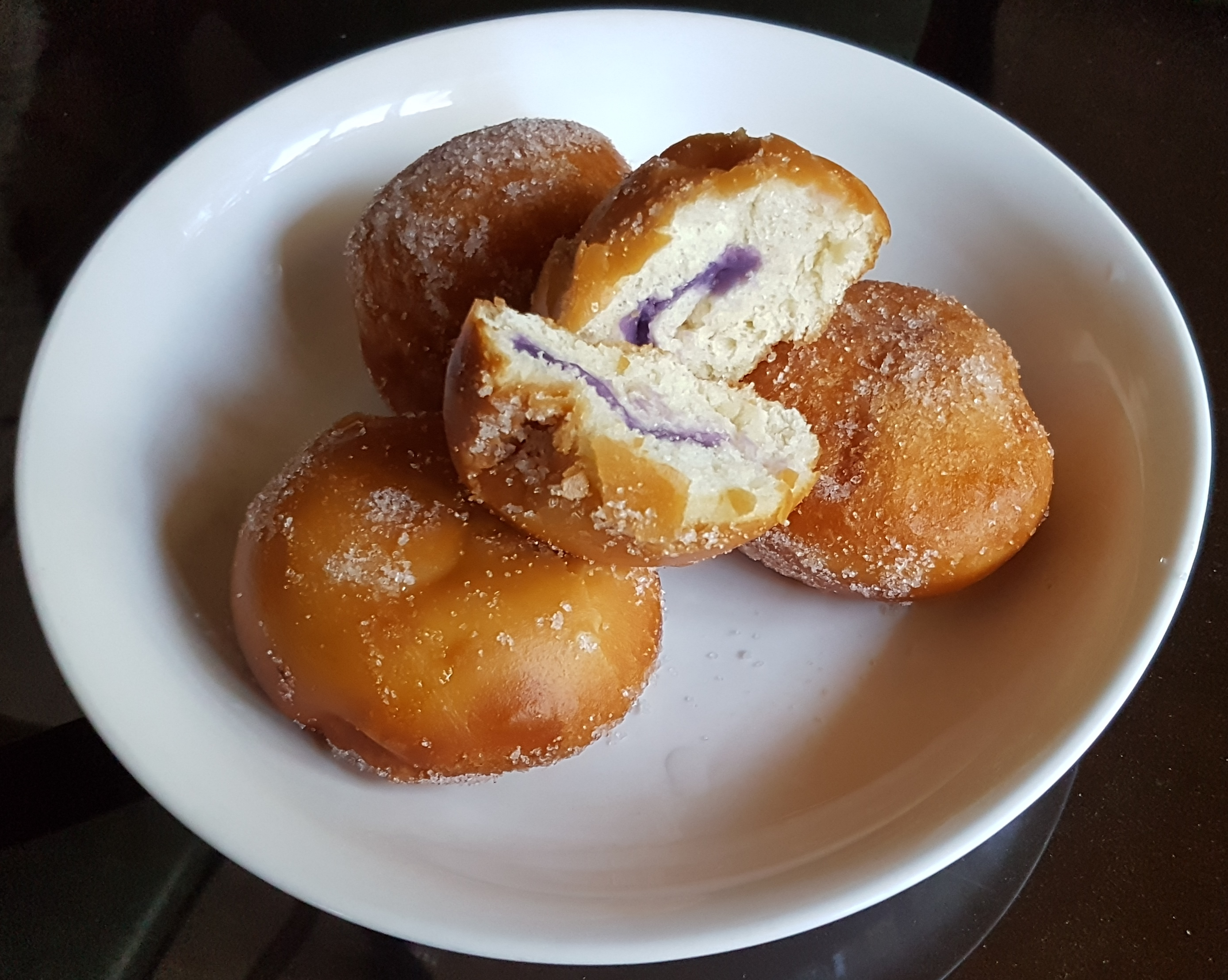 Philippine buñuelo (bunwelo) doughnuts with ube filling